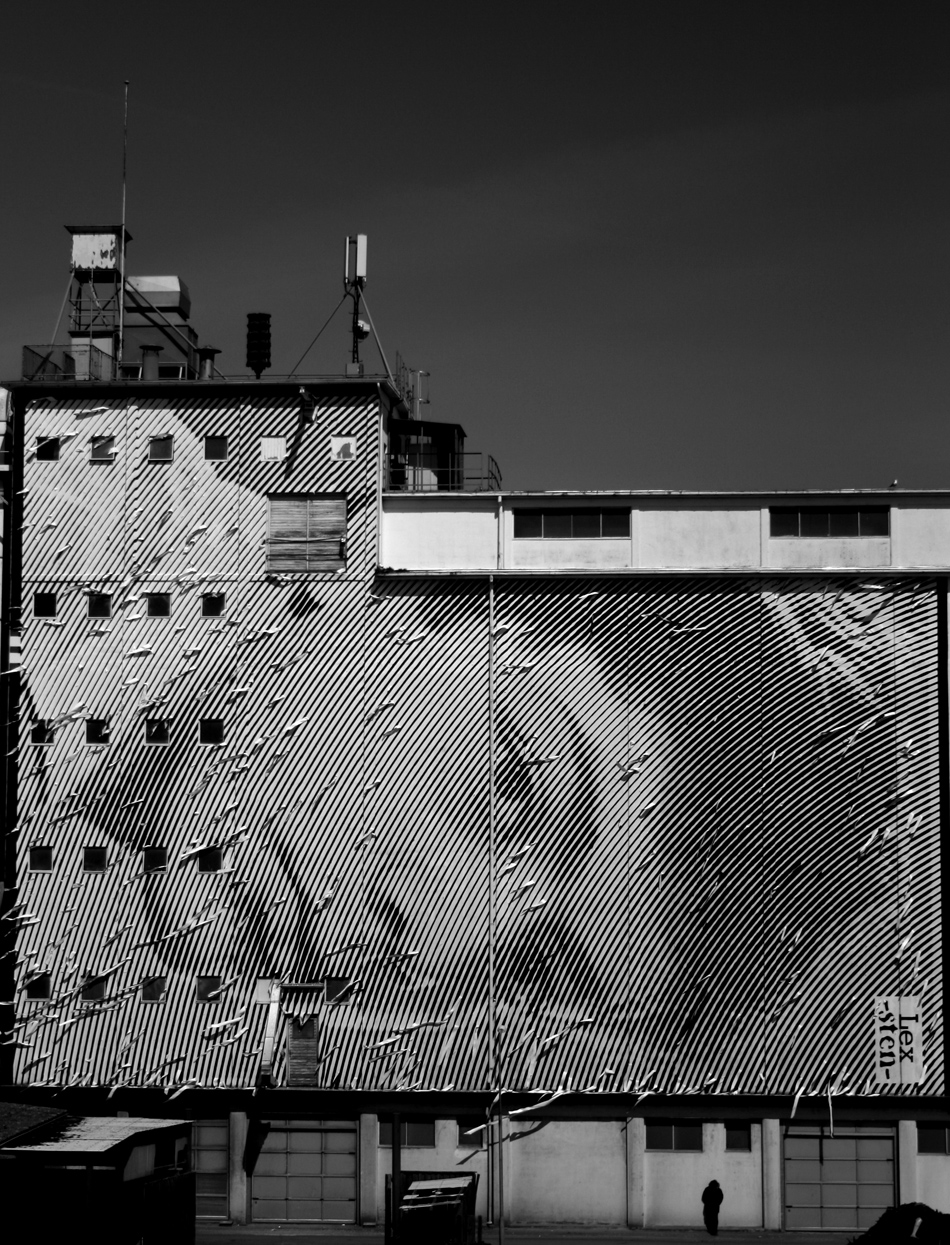 Stencil Poster